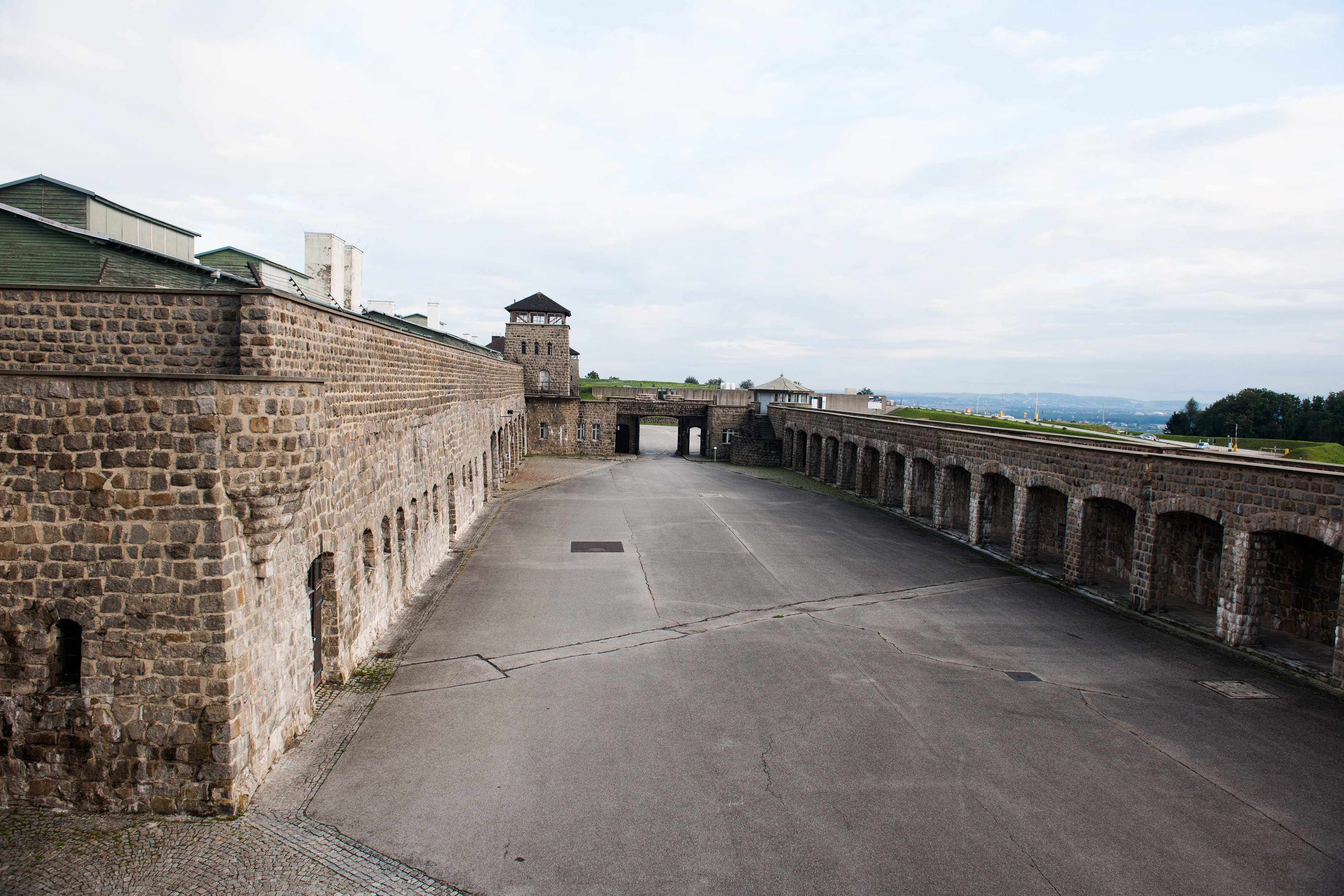 Mauthausen Memorial Dieses Bild wurde anlässlich des österreichischen Tags des Denkmals 2016 in Oberösterreich eingereicht.